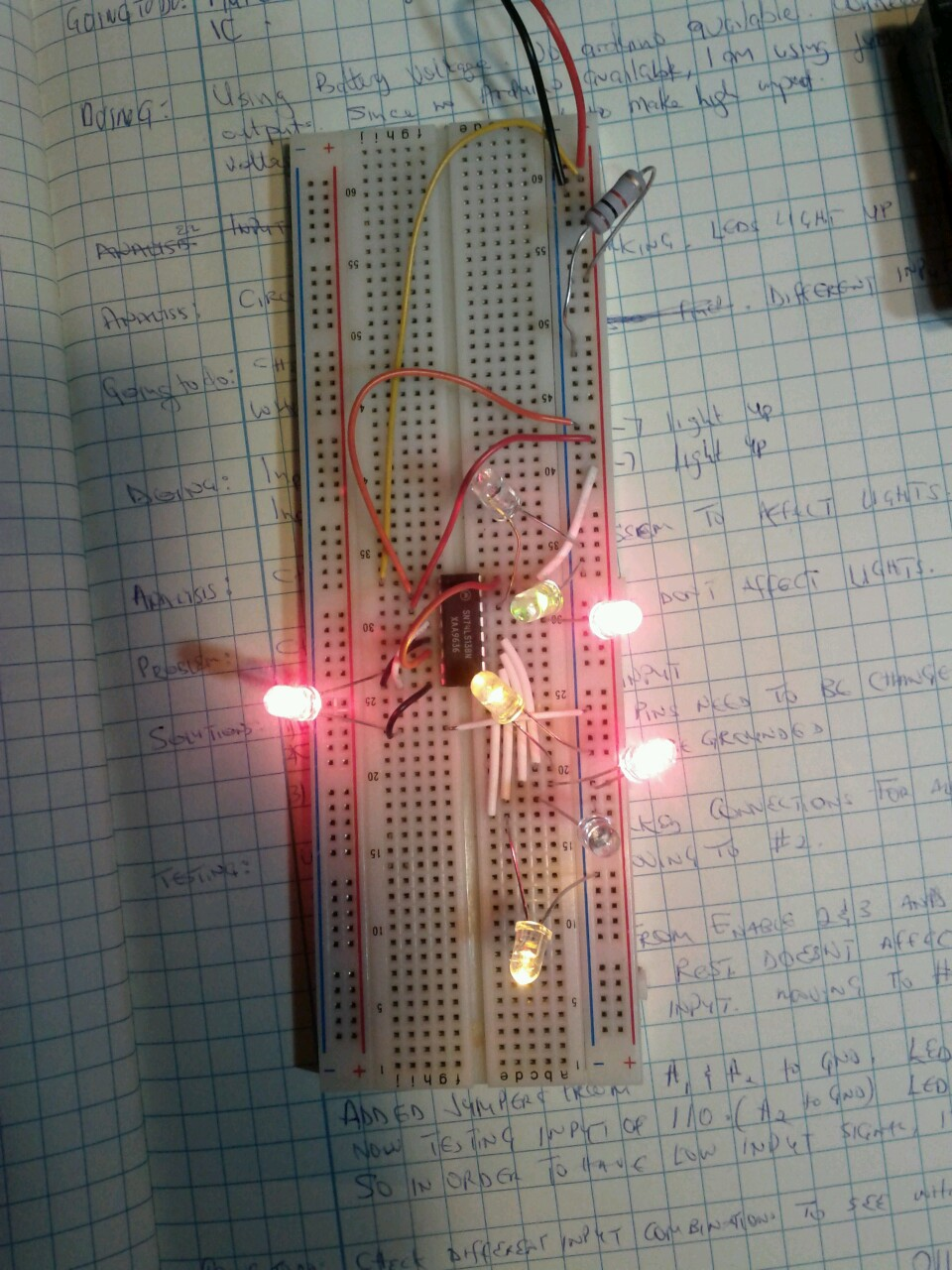 Circuit using 1-of-8 decoder and 9volt battery to light leds. the inputs are controlled by connecting the pins to the battery voltage for high state and grounding for low state.